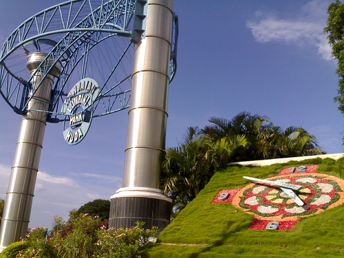 Entrance view of the Lumbini Park